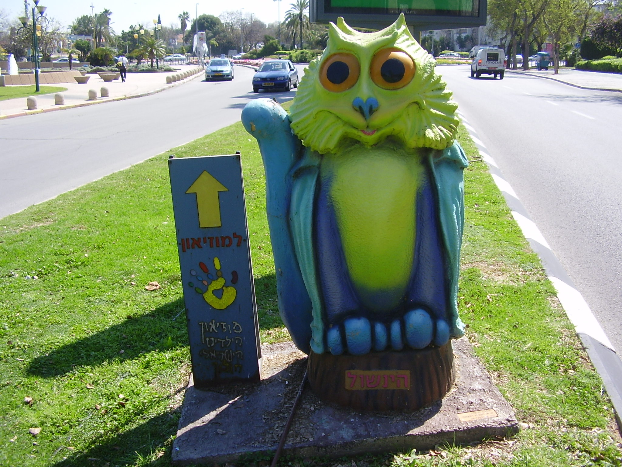 \"yanshool\" in holon